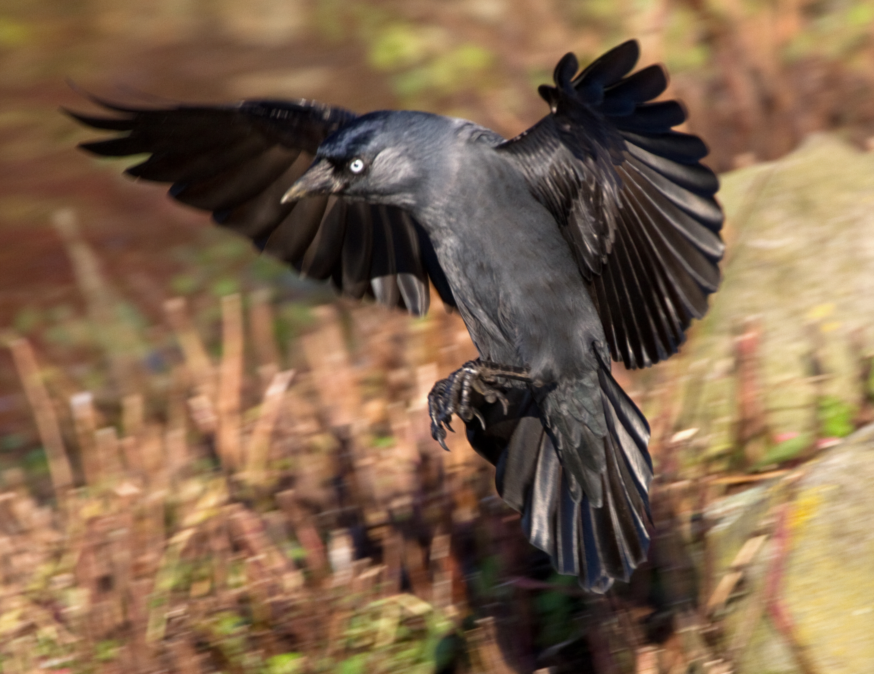 Western Jackdaw (Corvus monedula) landing. Awre, United Kingdom.